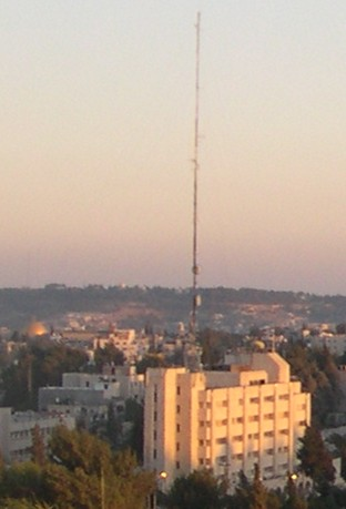 The Israeli police Headquarter, seen from Giv’at HaMivtar, Jerusalem, at sunset.